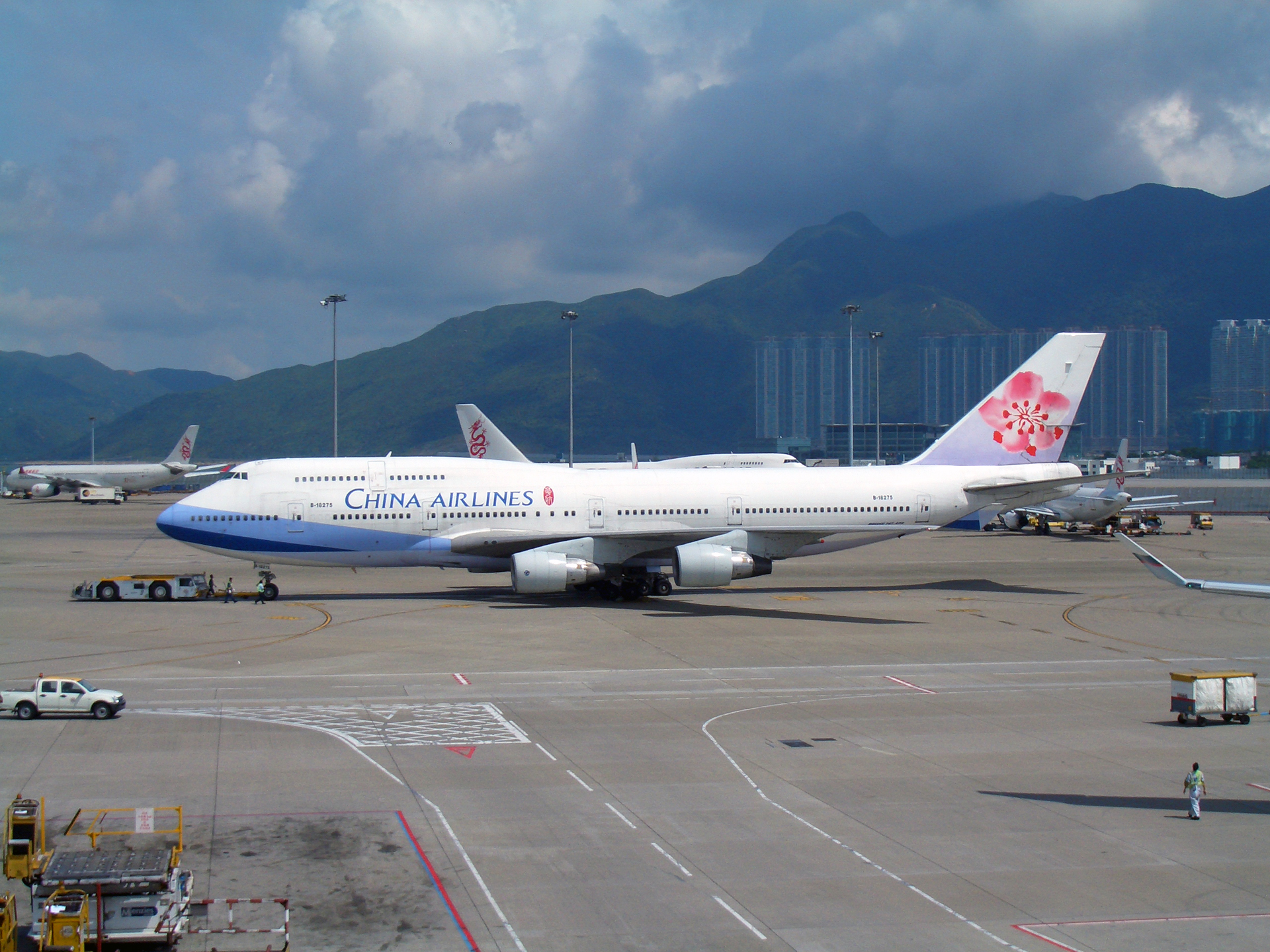 China Airlines 747-409 LN: 409 B-18275 at Hong Kong International Airport